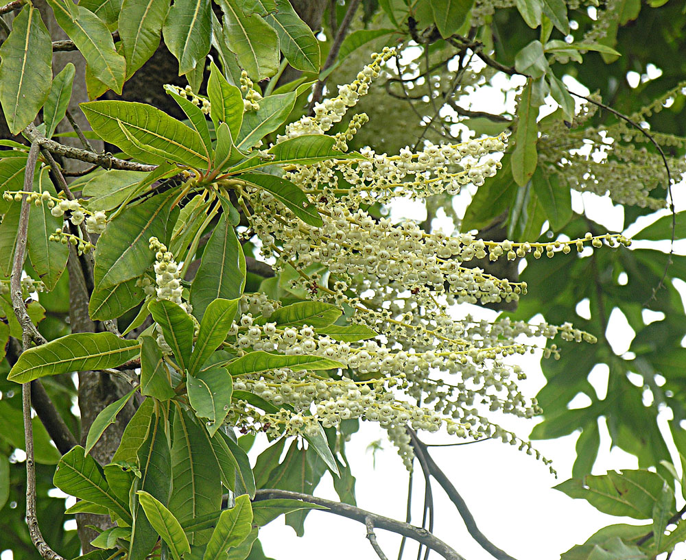 Native to southern Mexico, also known as C. vicentina. Photo from San Francisco Botancial Gardens. In context at